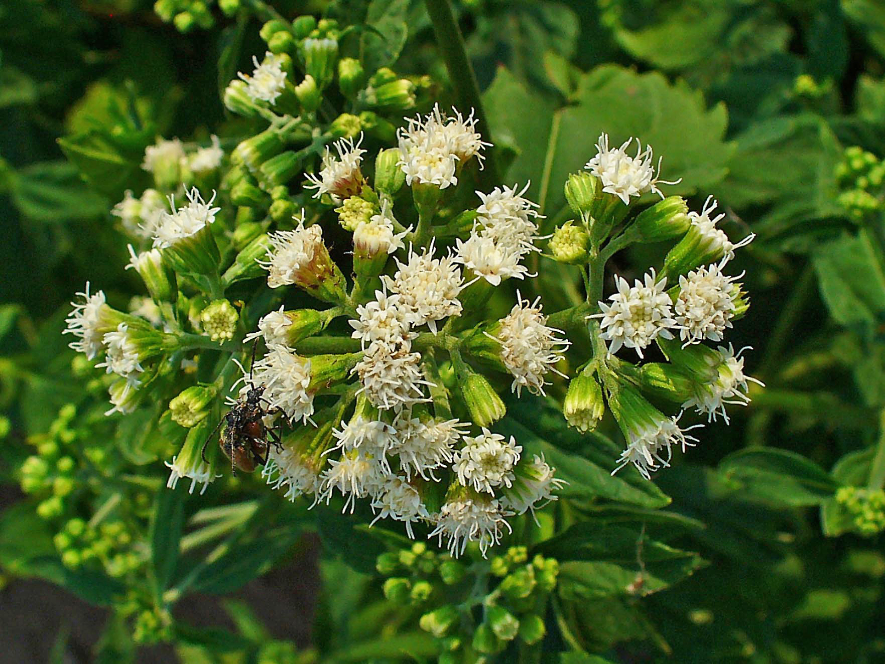 Ageratina altissima, Asteraceae, White Sanicle, Tall Boneset, inflorescences. Stutensee-Staffort, Germany.